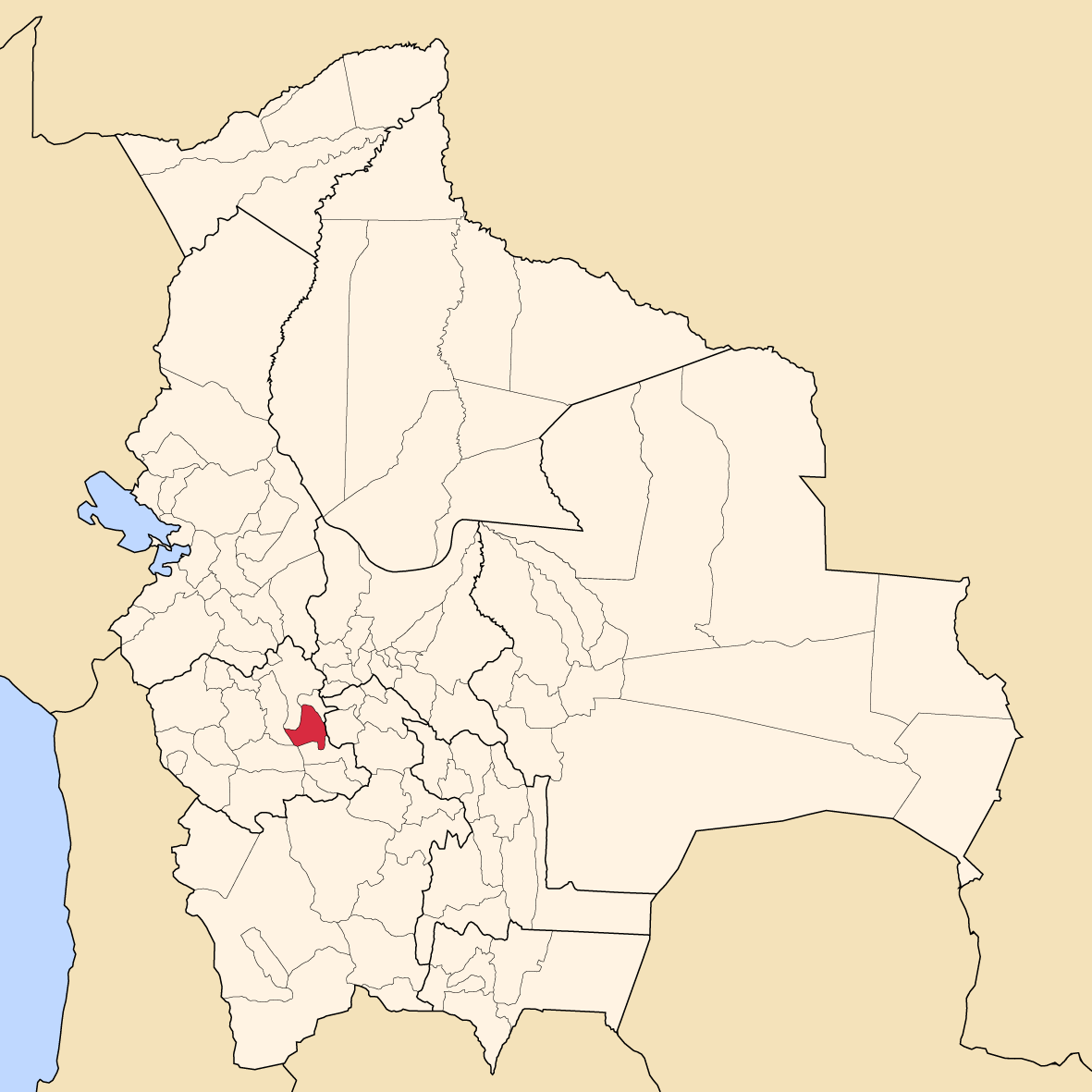 Map of Bolivia showing Poopó province, Oruro